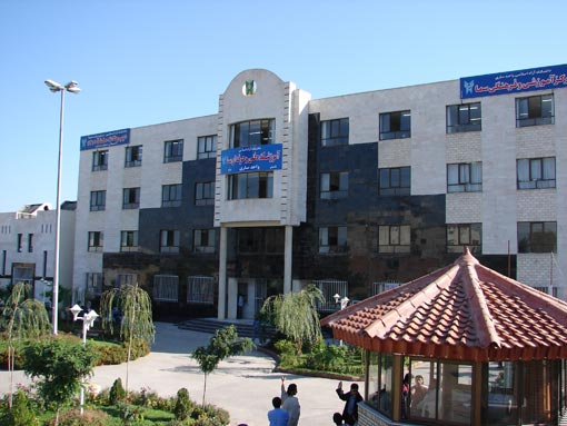 collage sama sari